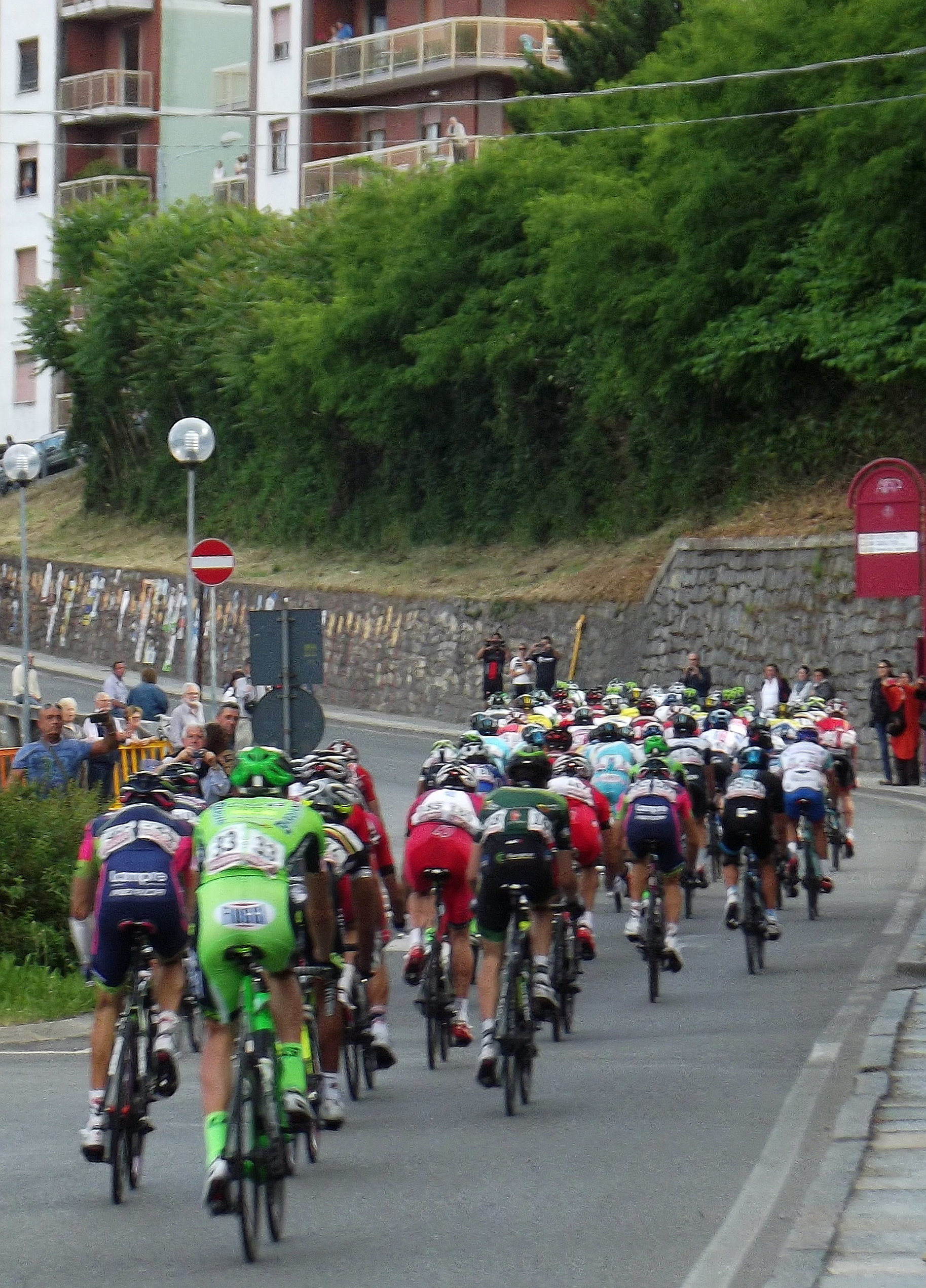 Biella, salita di Riva: Giro d'Italia 2014(fraction nr. 14 Agliè-Santuario di Oropa)